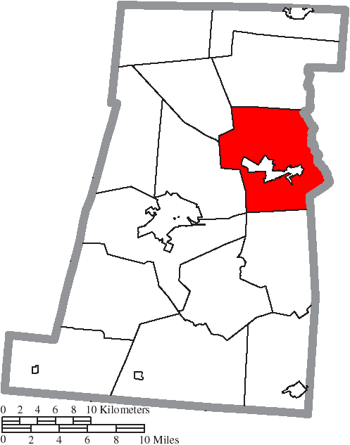 Map of the municipal and township boundaries of Madison County, Ohio, United States, as of the 2000 census, with the location of Jefferson Township highlighted. Township borders are shown only in unincorporated areas in order to differentiate incorporated and unincorporated areas more clearly.